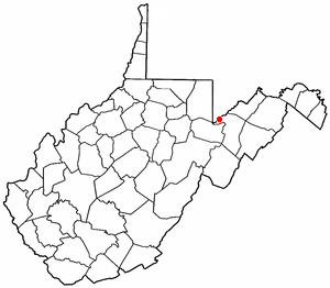 Adapted from Wikipedia's WV